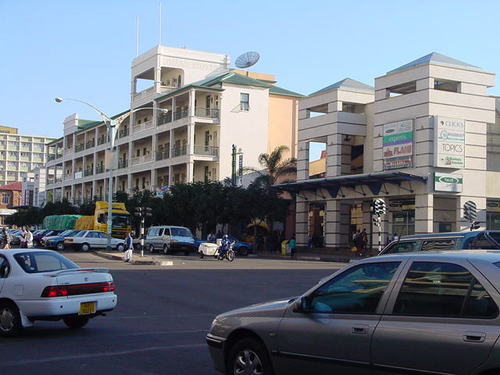 View of The Bulawayo centre